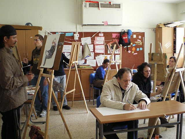 Kenafayim